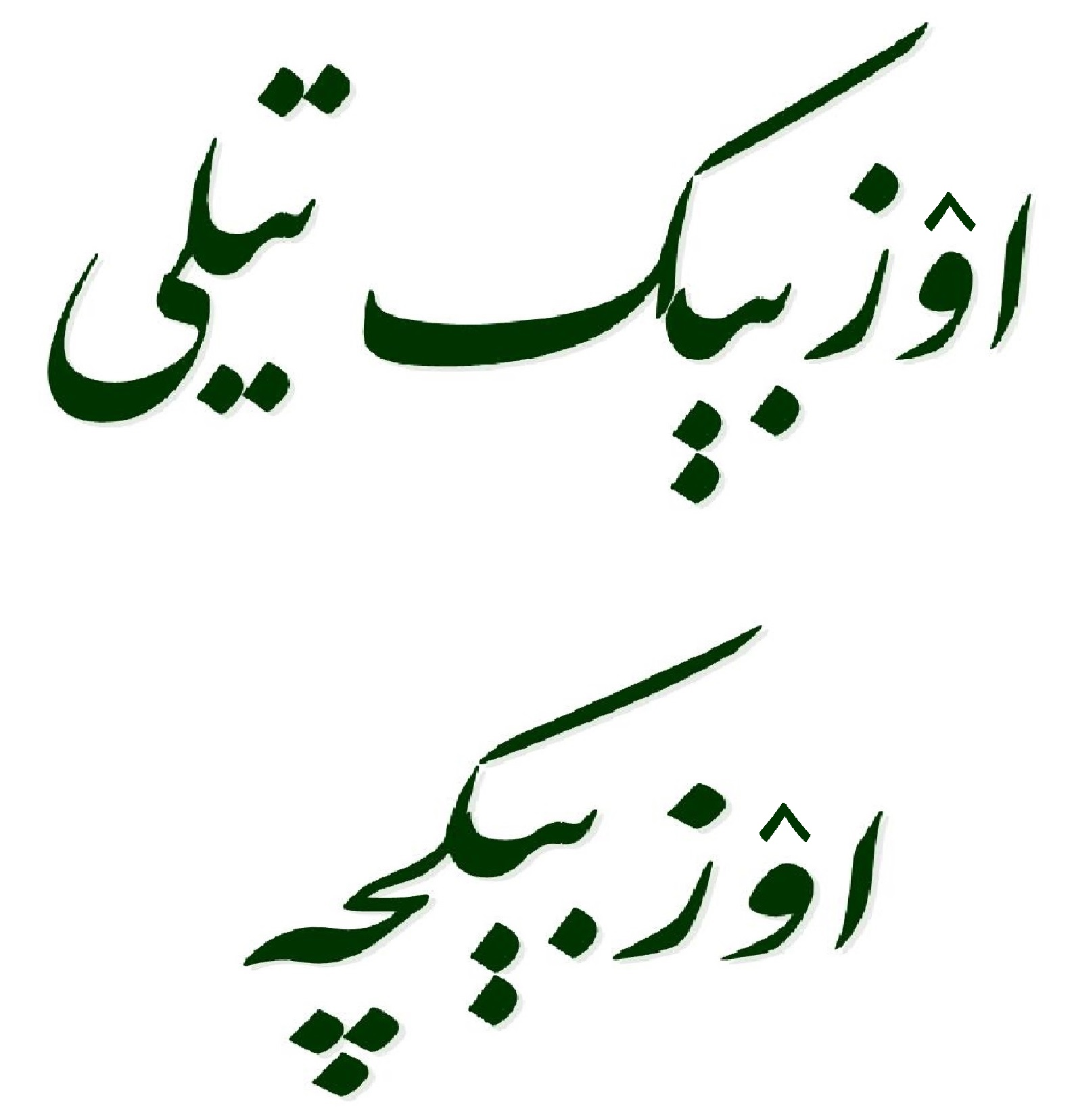 Uzbek language in perso-arabic script, in nastaliq. Uzbek - اوزبیکچه / Uzbek language - اوزبیک تیلی